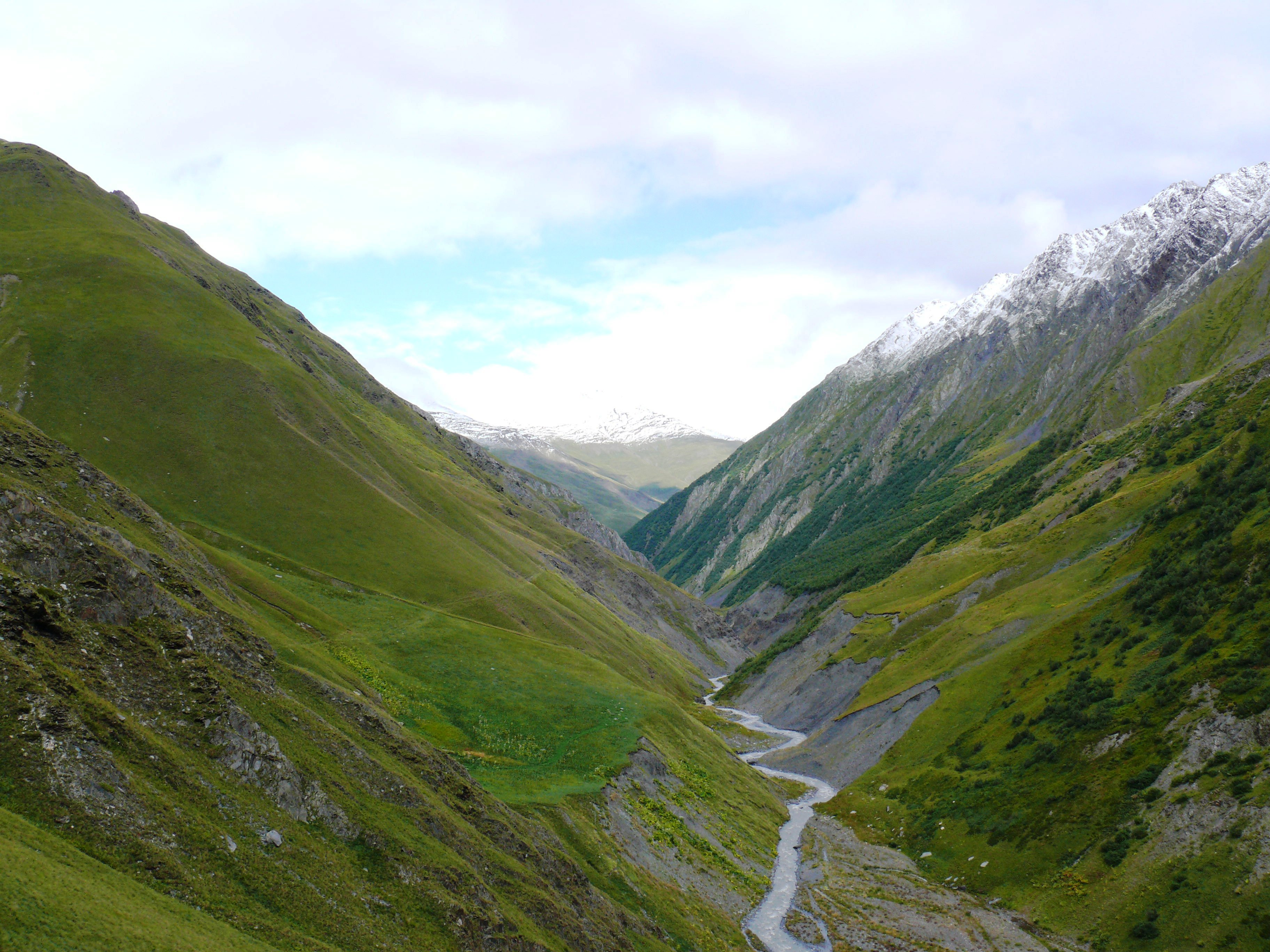 Thusheti